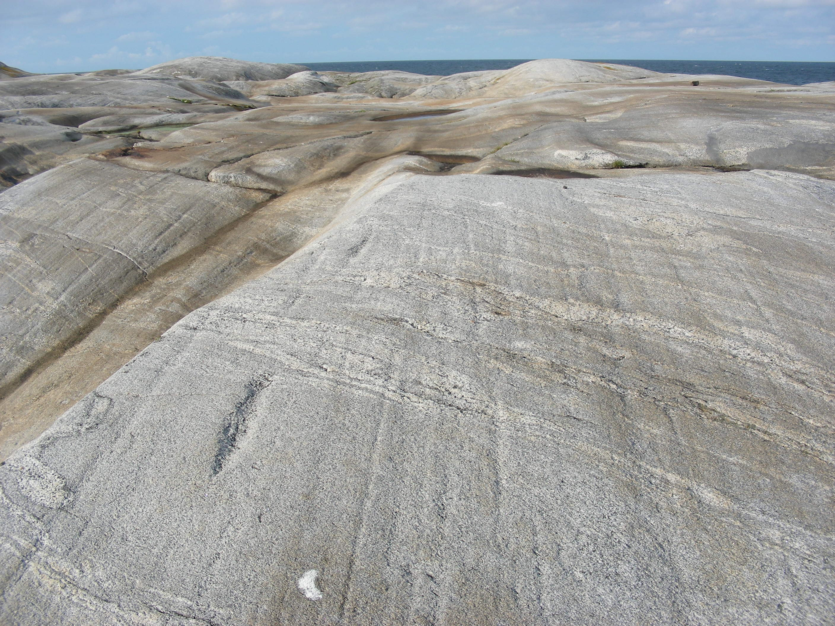 Rocks scratched by glaciers during the last ice age, leaving grooves called striations in the Precambrian (Proterozoic) rock surface, at Kosterhavet National Park on Mörholmen island in the Koster Islands in Sweden.